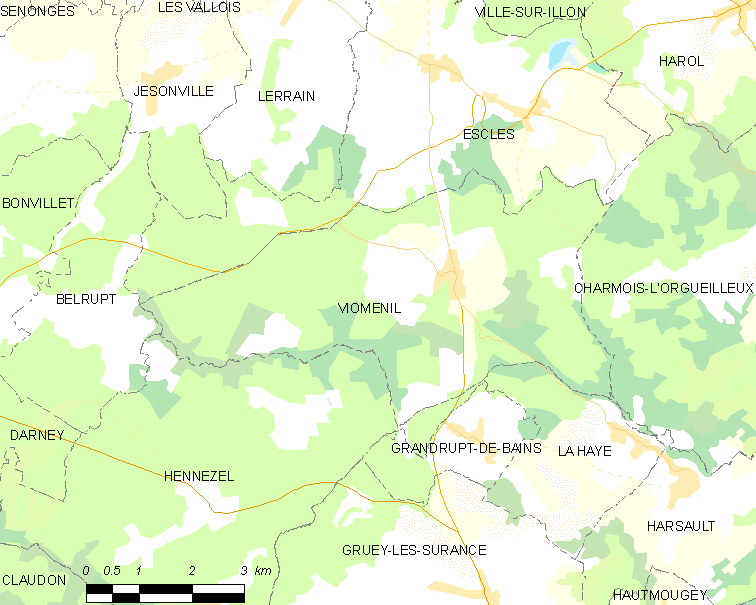 Map of French municipality Vioménil